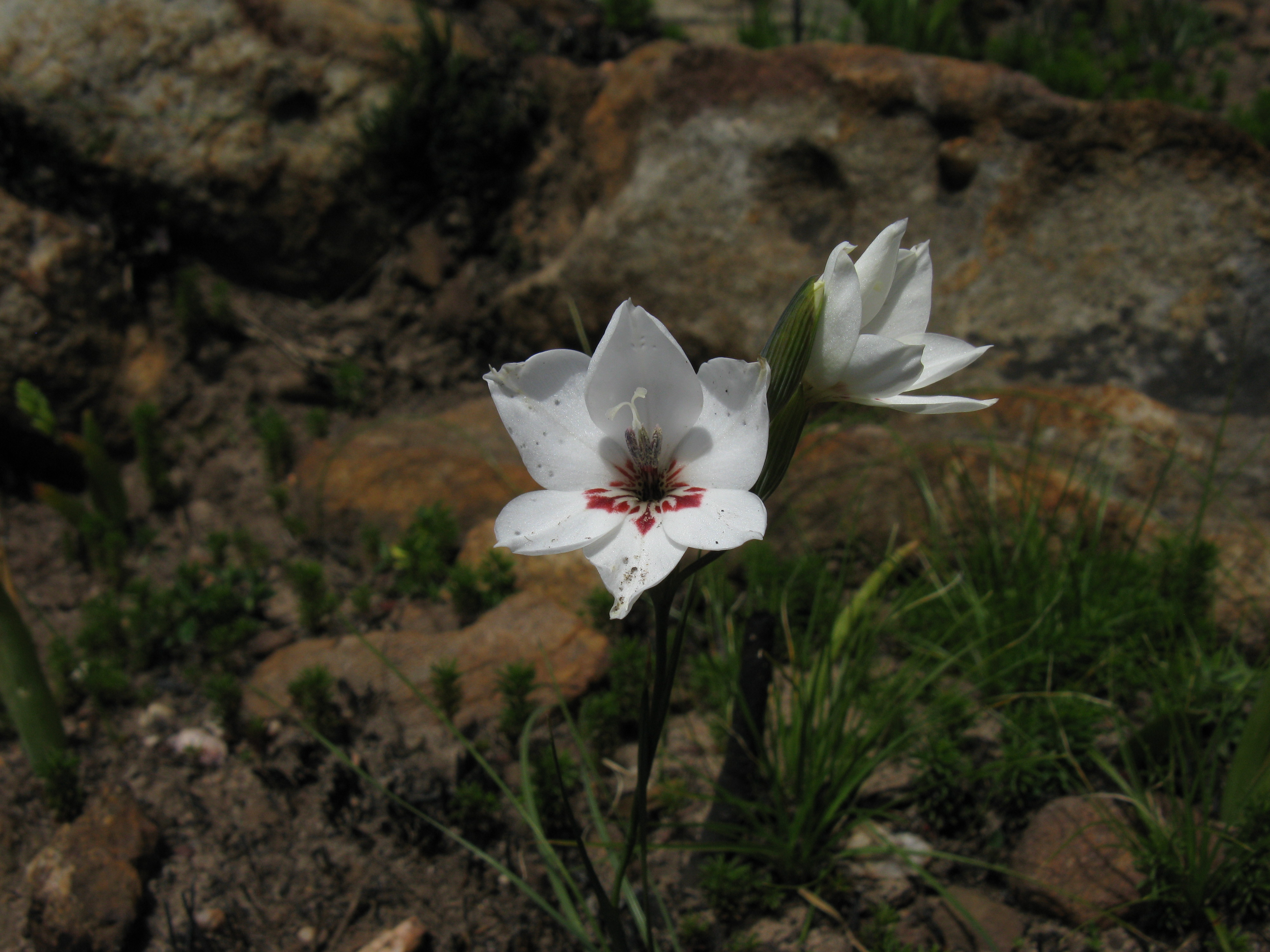 Gladiolus debilis. This species is sometimes called "The Little Painted Lady", from a fancied resemblance to the larger Gladiolus cardinalis, the "true" painted lady.